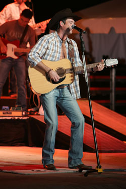 Tracy Byrd performing in 2008